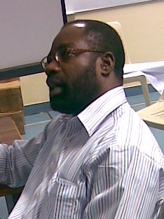 Philip Emeagwali judging a contest of Kshitij at IIT Kharagpur, India.